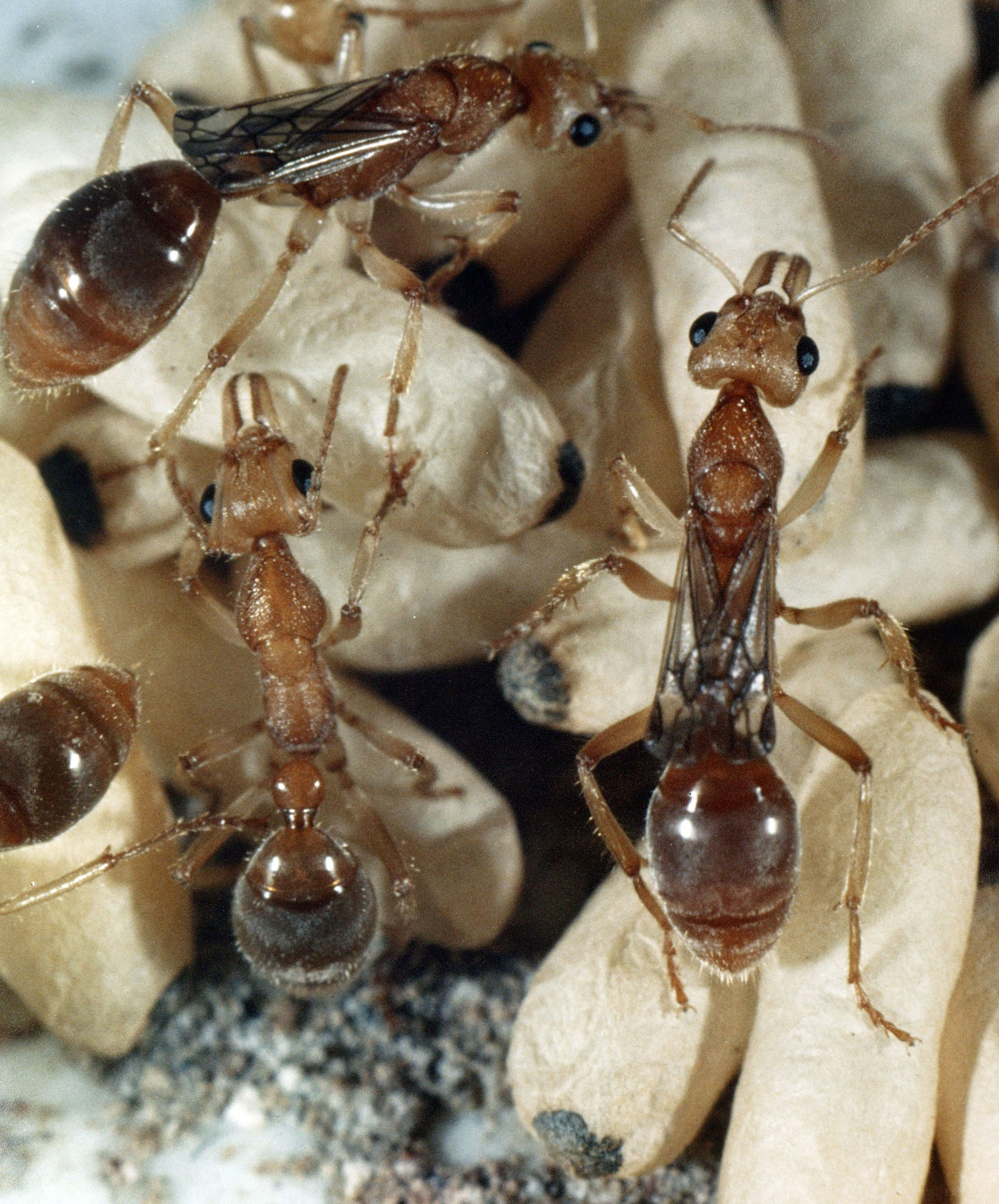 This ant of ancient lineage is described as a living fossil. It is perhaps the most primitive ant still alive today.